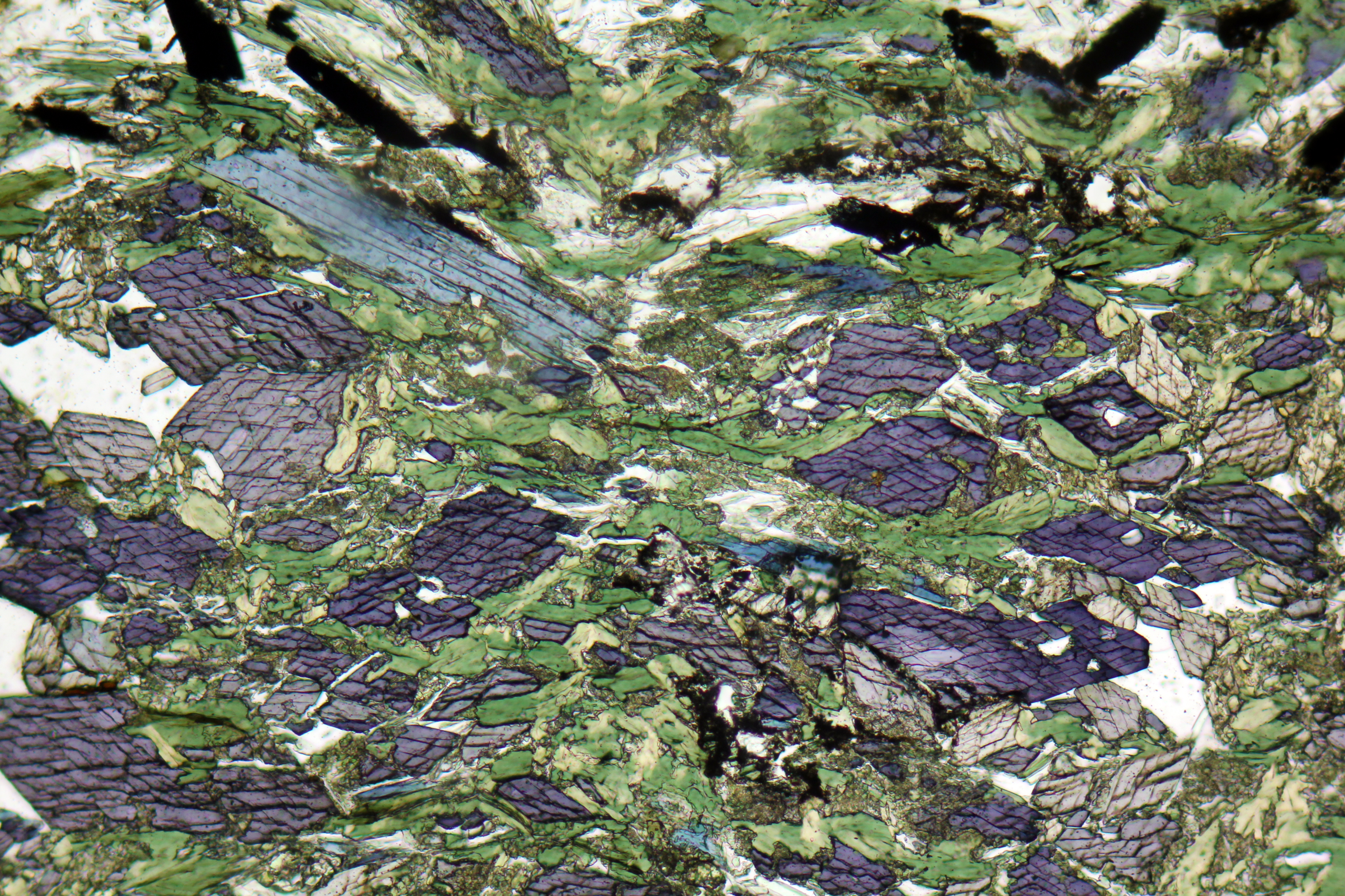 Glaucophane (blue) and chlorite (green) in a blueschist. Plane polarized light image, magnification 10x (Field of view = 2mm)